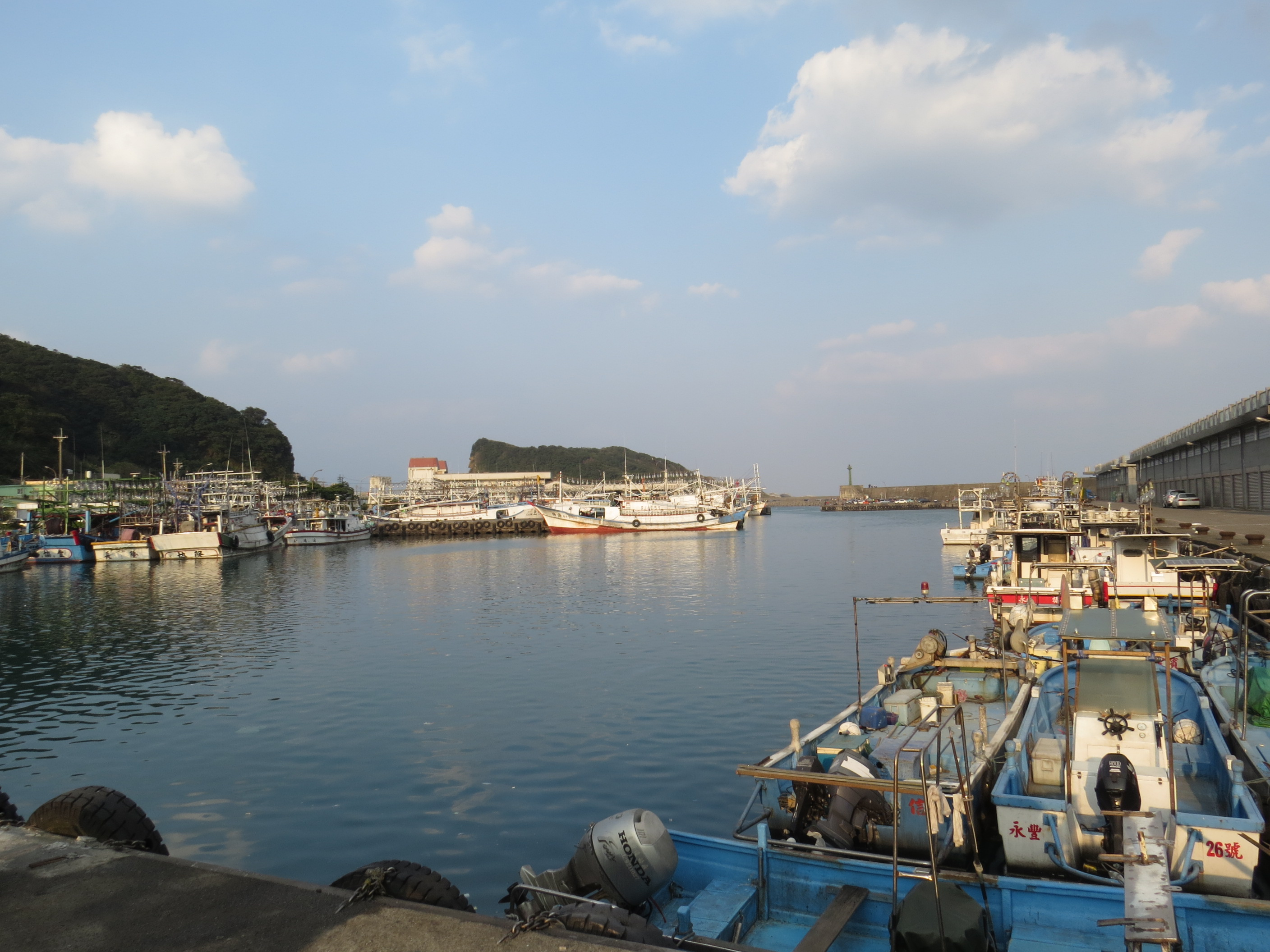 Shen-ao Harbor, Ruifang District, New Taipei, Taiwan中文（台灣）: 深澳漁港，地點：臺灣新北市瑞芳區深澳